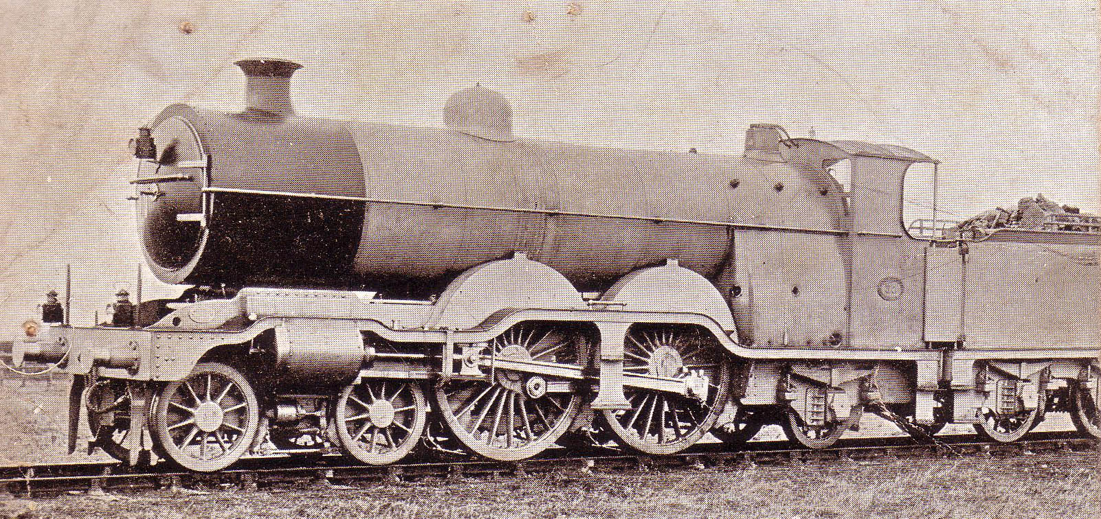 LB&SCR H1 Class No.37 shortly after delivery